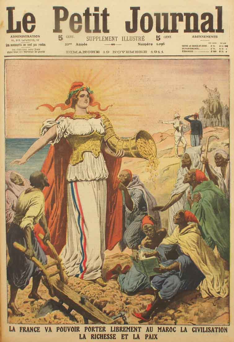 " Le Petit Journal" is a French magazine illustrating France as a voluptuous generous fair skinned woman who will bring wealth, civilization and peace to Moroccan people portrayed as indigenous dark skinned Africans.This magazine was dated November 19, 1911.